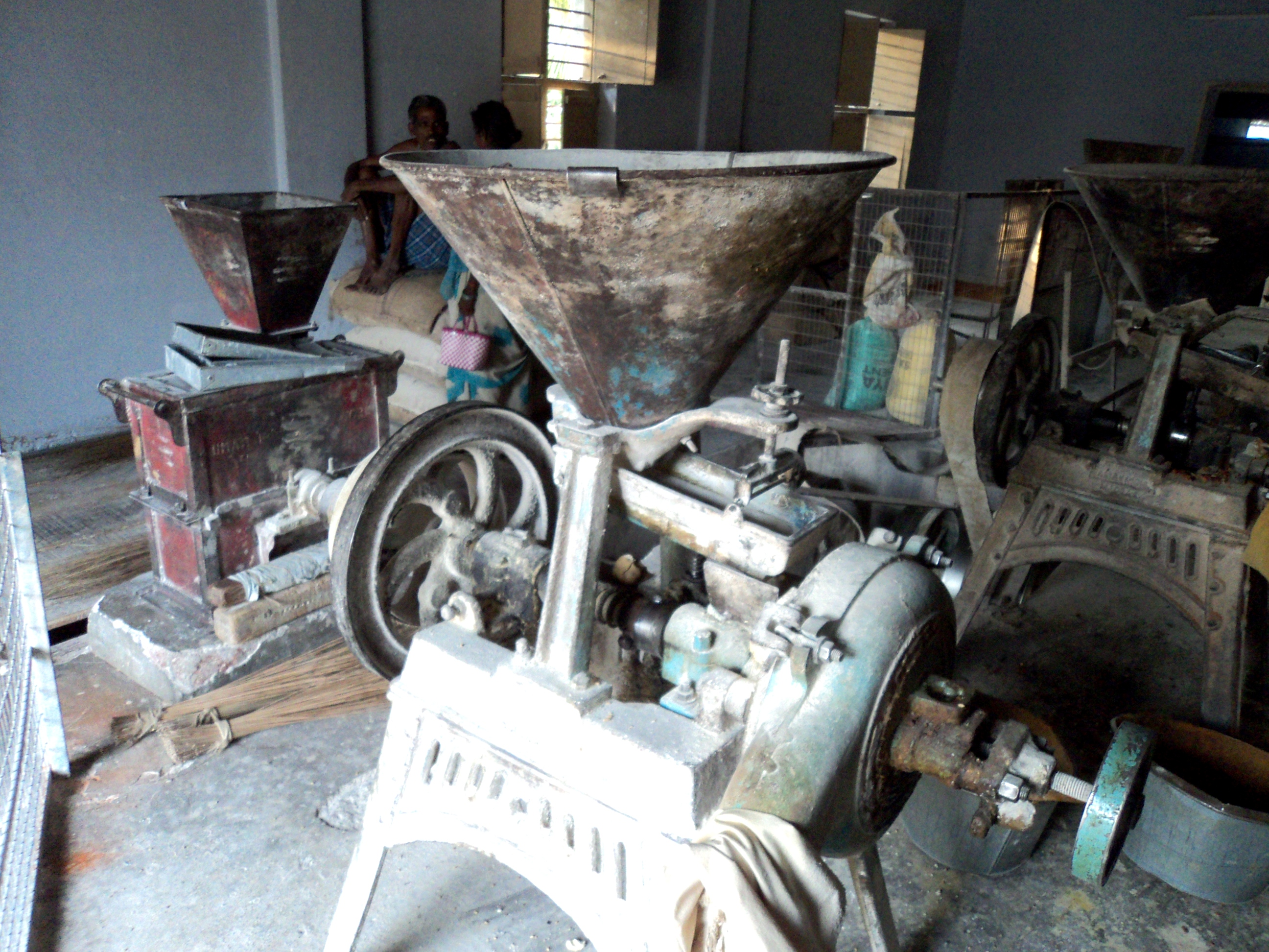 a grain's mill